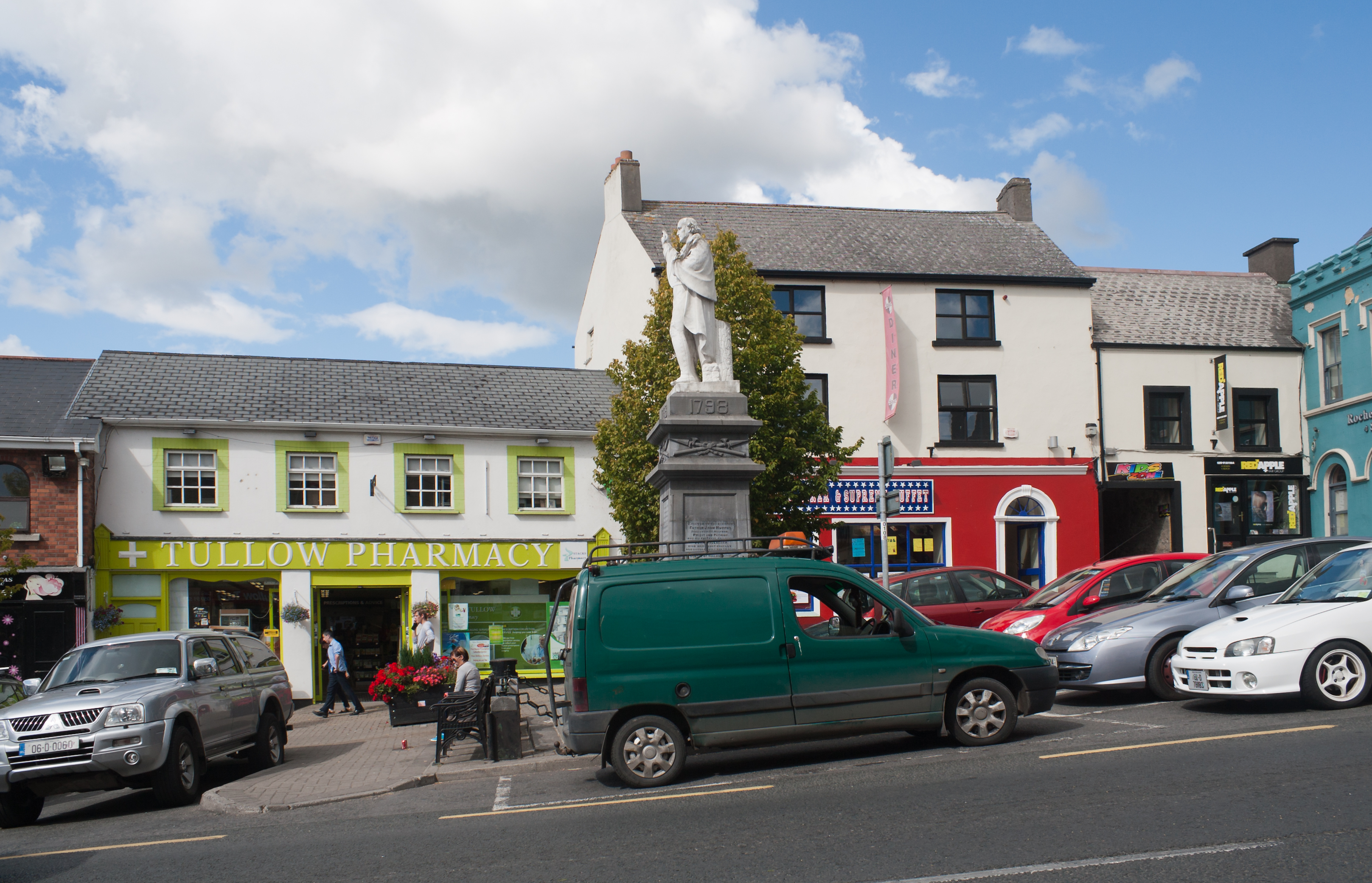 Market Square in Tullow with a monument dedicated to Father John Murphy, one of the leaders of the 1798 rebellion who was caught near Tullow and executed on 2 July 1798 at the market square. The memorial was erected in 1905 by the people of Tullow.